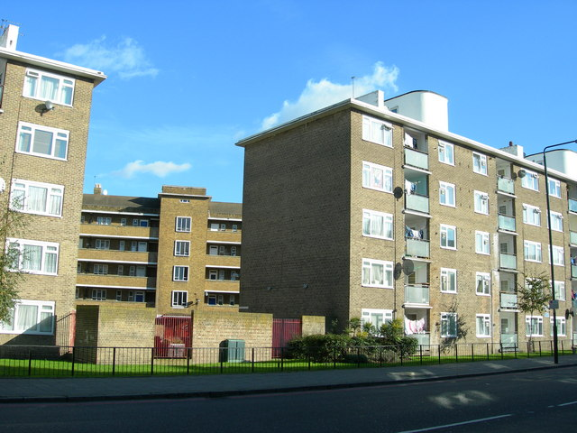 Flats on the Waltham Estate, Stockwell Road, SW9 Showing (in foreground) Waltham House and Burford House, with Thorncroft House in the background.